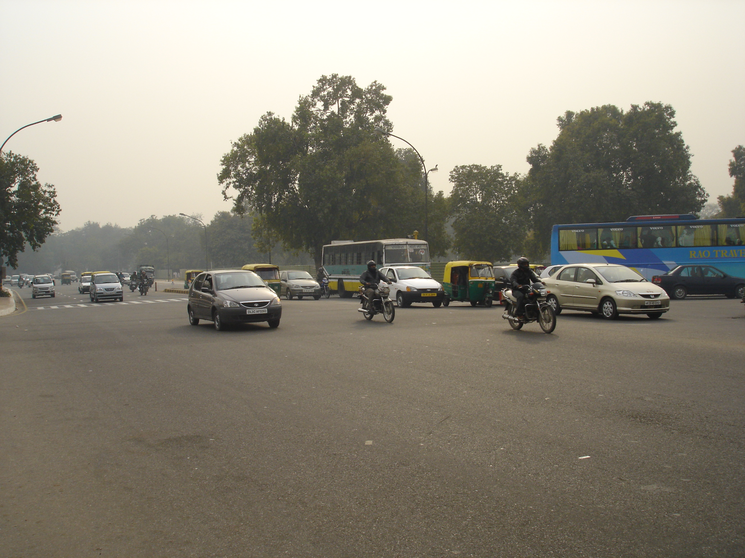 A main road in Delhi